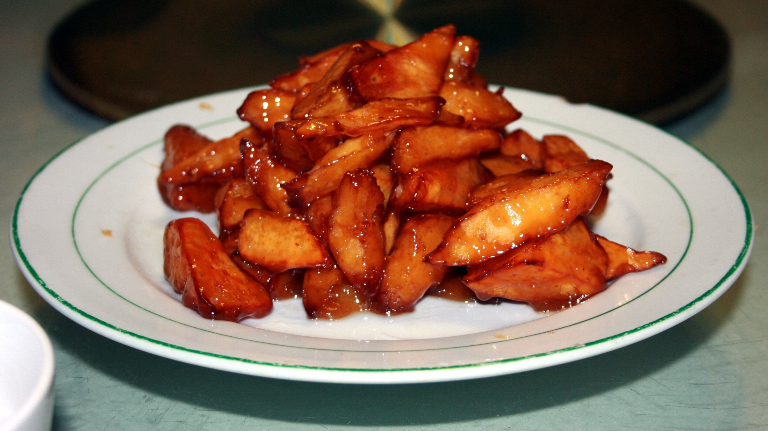 Photograph of the Basi digua (拔丝地瓜, literally: "pull silk sweet potato") dish served in Jinan, Shandong Province, China.